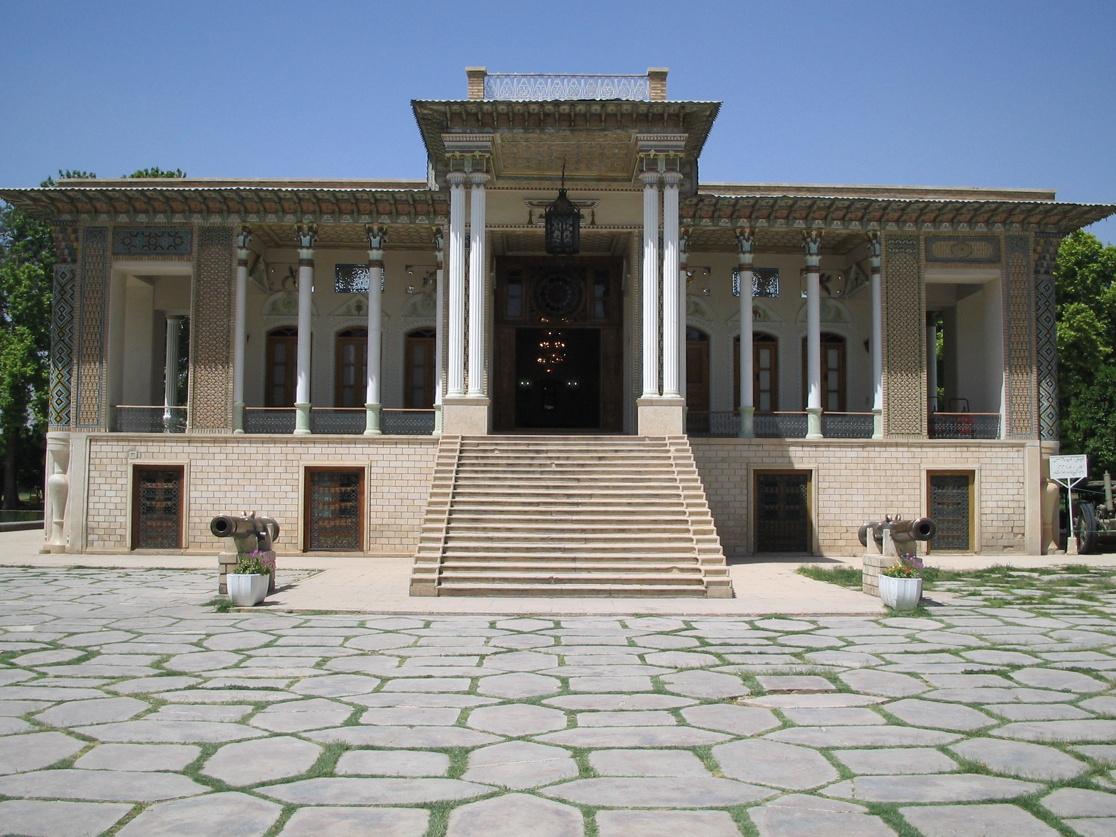 Afif Abad Palace (Military museum) in Shiraz, Fars Province, Iran.